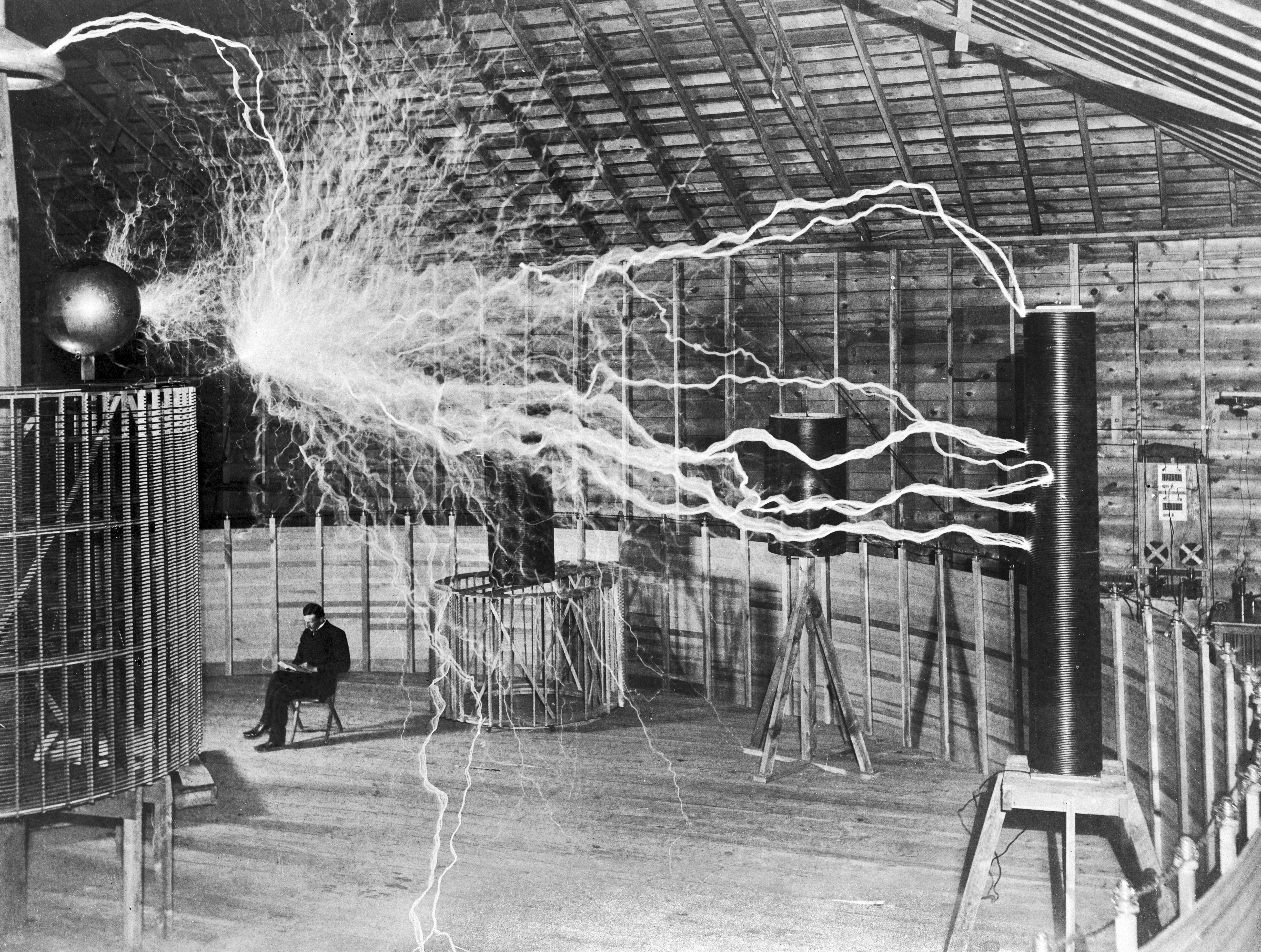 Famous photograph of Serbian-American inventor Nikola Tesla in his laboratory in Colorado Springs December 1899, supposedly sitting reading next to his giant "magnifying transmitter" high voltage generator while the machine produced huge bolts of electricity. The photo was a promotional stunt by photographer Dickenson V. Alley; a double exposure. First the machine's huge sparks were photographed in the darkened room, then the photographic plate was exposed again with the machine off and Tesla sitting in the chair. In his Colorado Springs Notes Tesla admitted that the photo is false: "Of course, the discharge was not playing when the experimenter was photographed, as might be imagined!" Tesla's biographers Carl Willis and Mark Seifer confirm this. During 1899-1900 Tesla built this laboratory and researched wireless transmission of electric power there. The Magnifying Transmitter, one of the largest Tesla coils ever built, with input power of 300 kW could produce potentials of around 12 million volts at a frequency of about 150 kHz, creating 130 ft. (41 m) "lightning bolts". The arcs in the image are 22 feet long. These long arcs were not a feature of the normal operation of the coil because they wasted energy; for these photos Tesla forced the machine to produce arcs by switching the power rapidly on and off. The photo was part of a publicity spread taken by photographer Dickinson Alley in December 1899 to accompany Tesla's magazine article Nikola Tesla, "The Problem of Increasing Human Energy", Century Magazine, The Century Co., New York, June 1900, fig. 8; a version without Tesla appears in the article. Wellcome Images Keywords: Electrical energy; Electric; Power; Electricity; Energy; Volt; Power (Psychology); Static; Voltage; Laboratories; Nikola Tesla